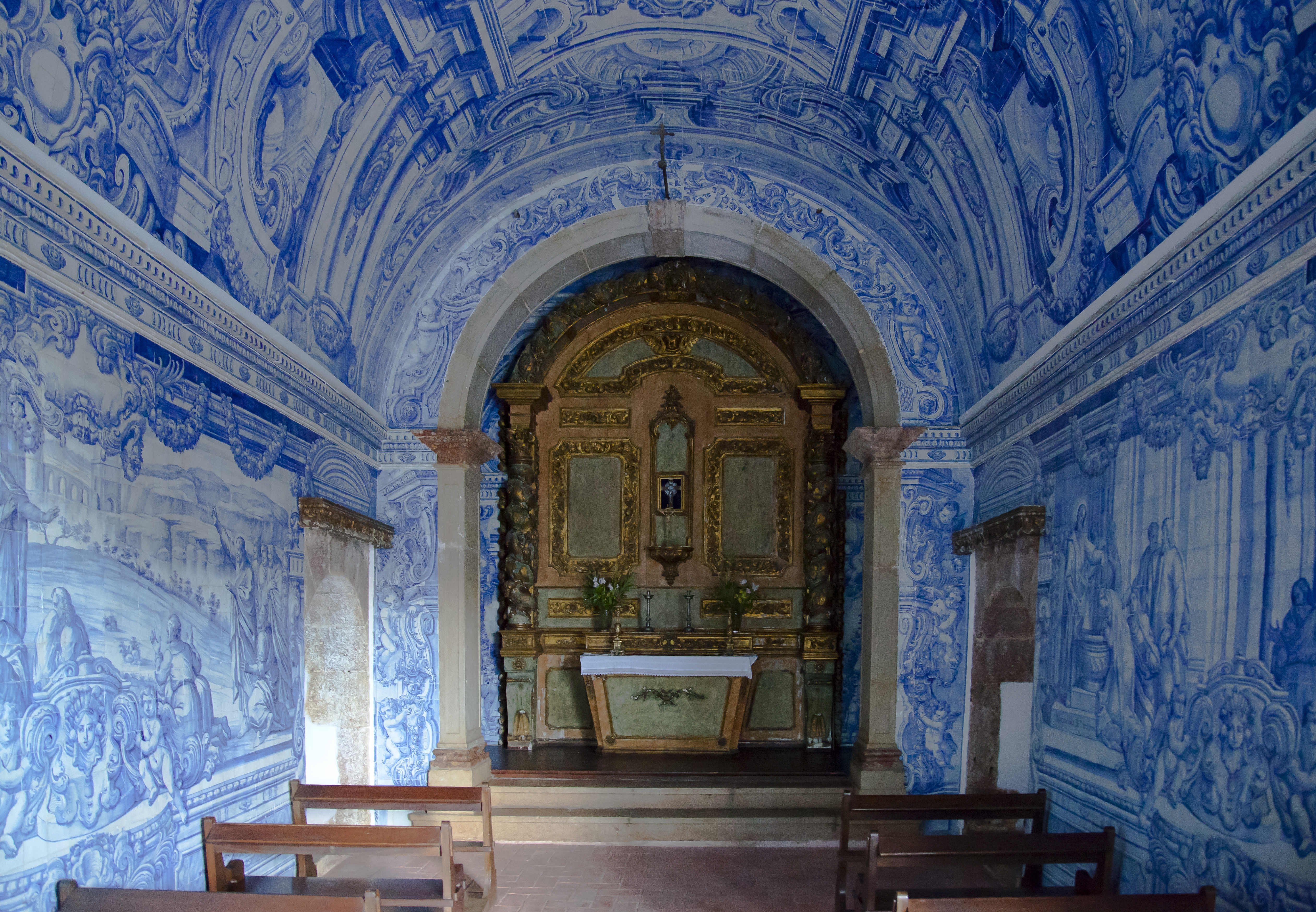 Fort of Saint Philip, Setubal, Portugal